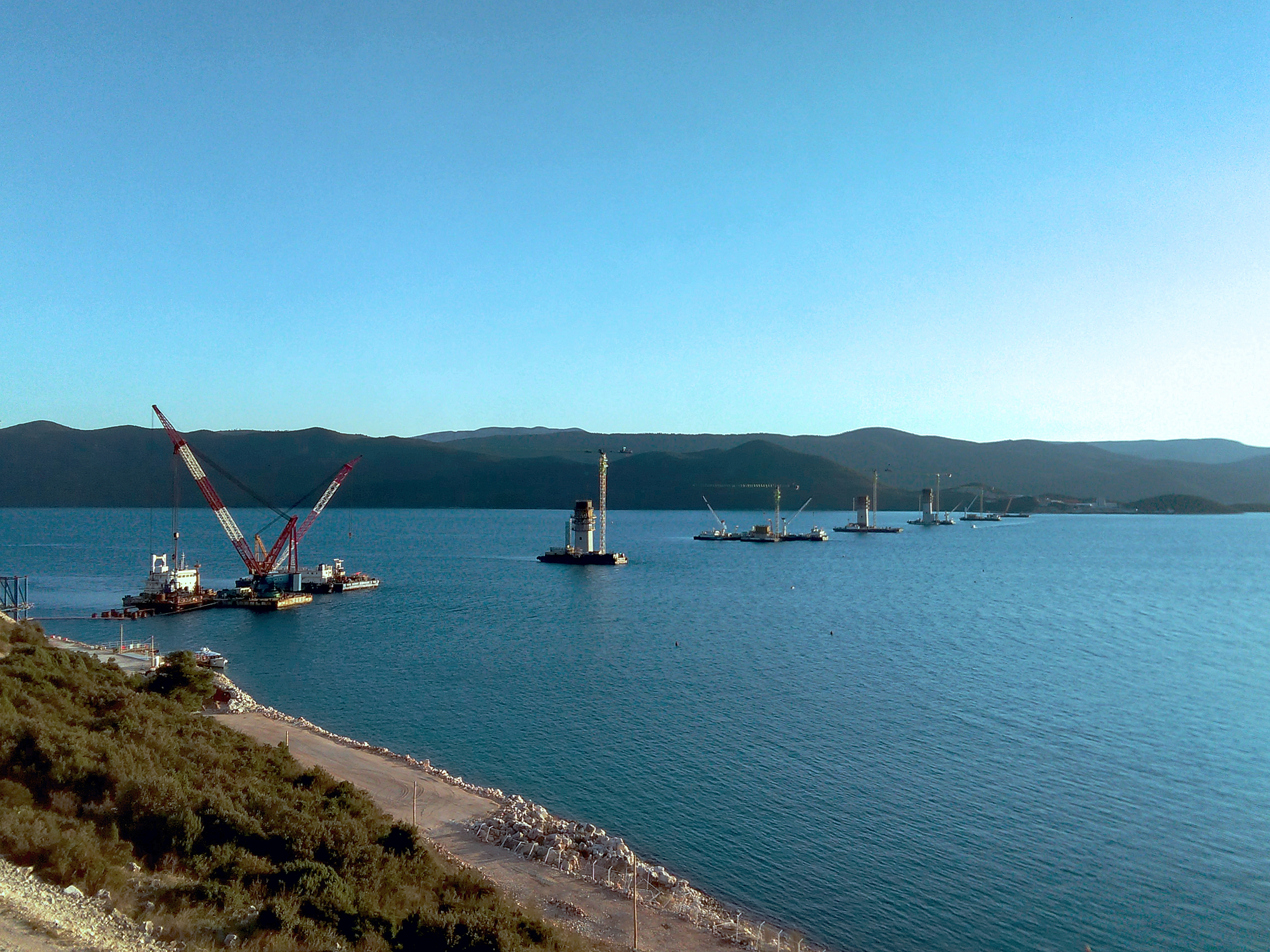 Pelješac bridge construction site